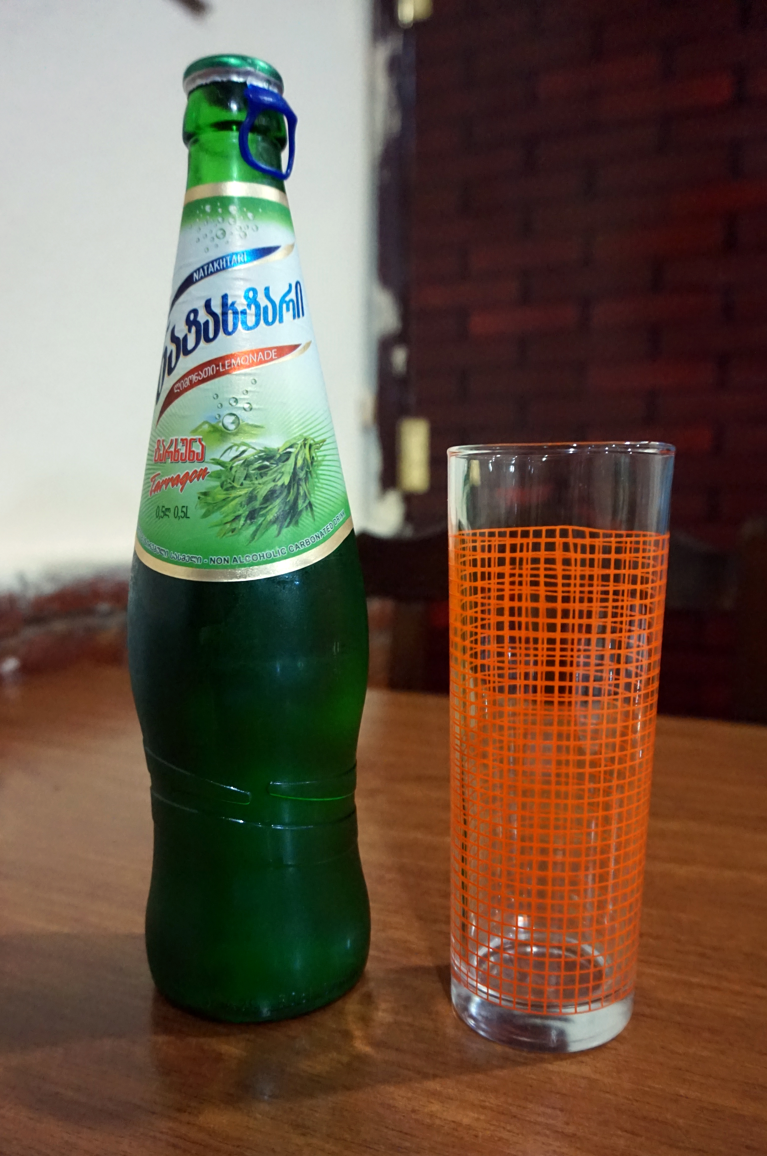 Georgian tarkhuna drink "Natakhtari" in a bottle (apparently unopened). The drink is green-coloured.The glass is empty.